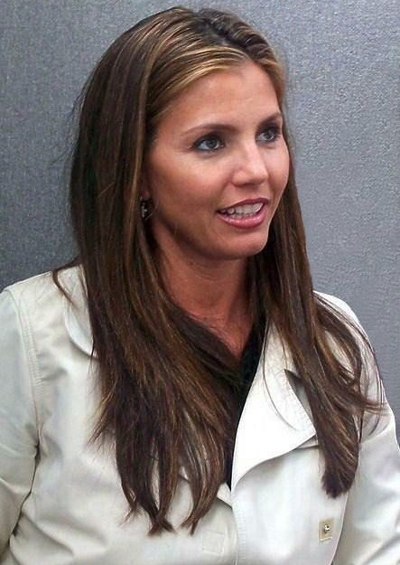 Actress Charisma Carpenter at Collectormania, 5th May 2007